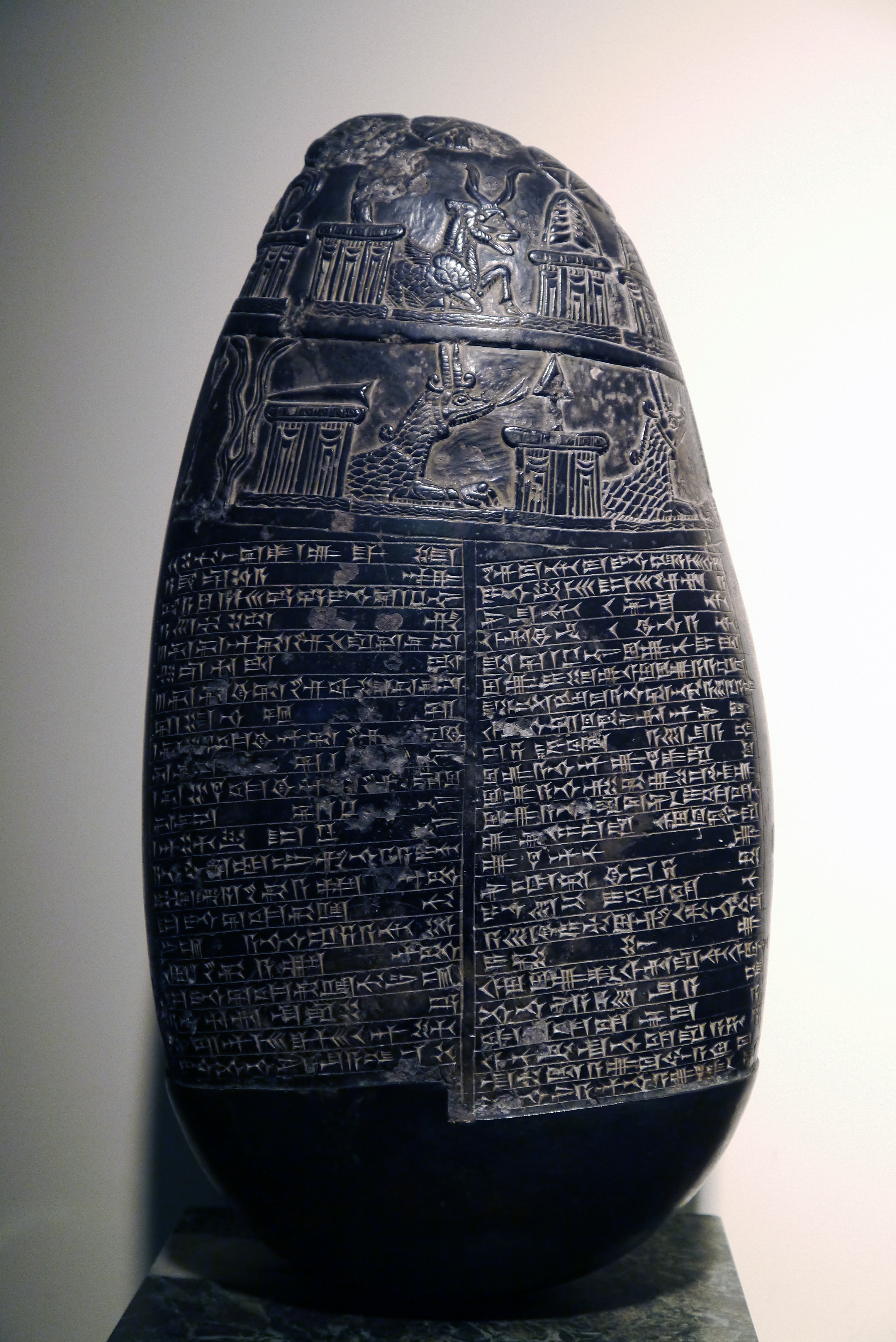 Cabinet des médailles, Paris, France. Babylonian kudurru of the Kassite Period, known as the "Michaux Stone". The stele bears an inscription (a property charter) in Akkadian script. Black serpentine, early 11th century BC, found near Baghdad in 1876 by the French botanist Michaux, hence the name.